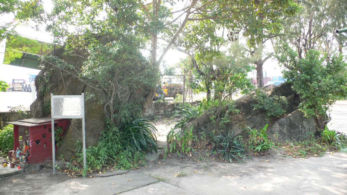 Testicles Rocks in Cha Kwo Ling